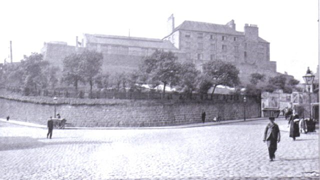 Old photo of Castlehill Barracks in Aberdeen